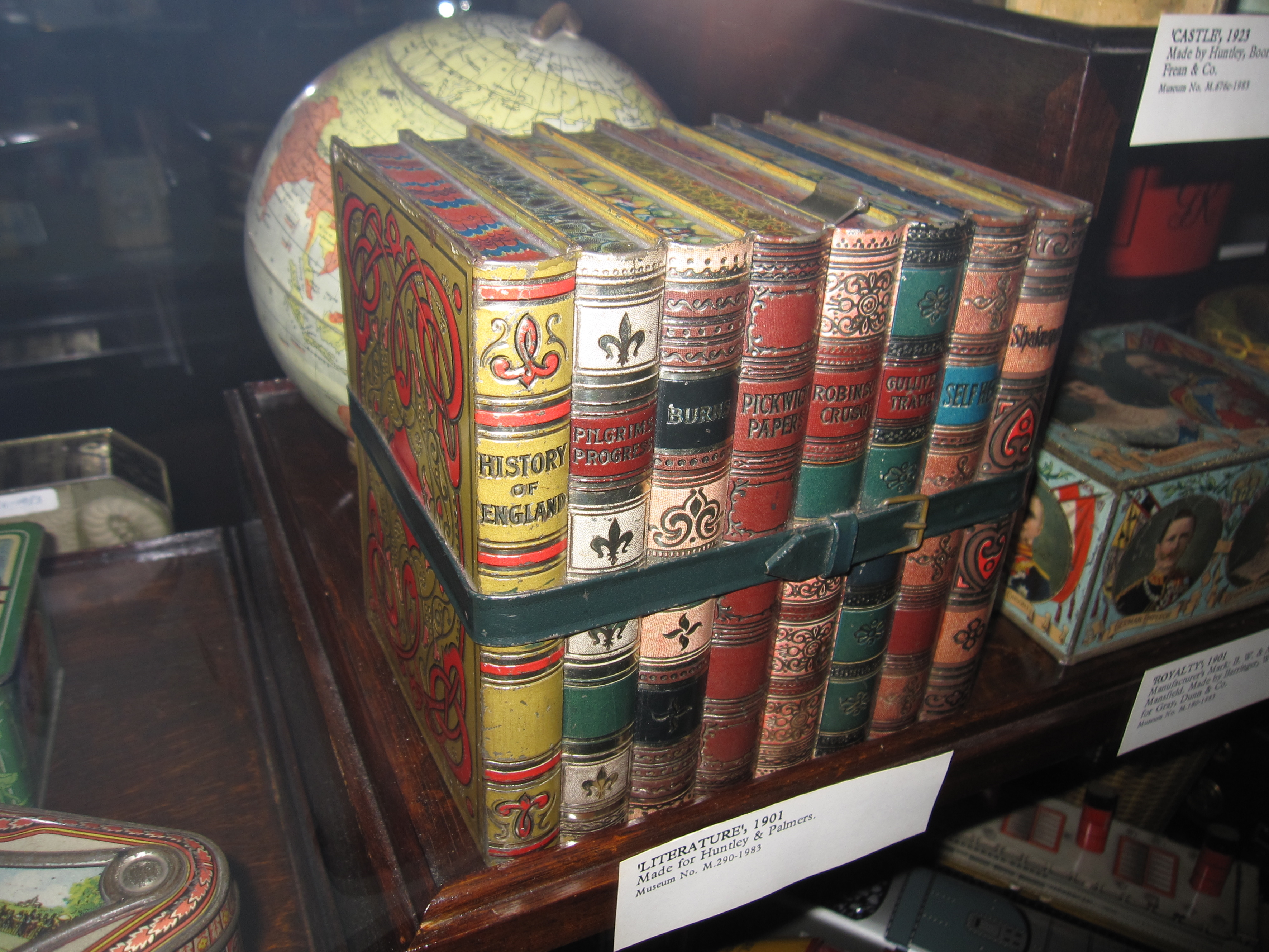 "Literature". Made for Huntley & Palmers. Victoria and Albert Museum no. M.290-1983.